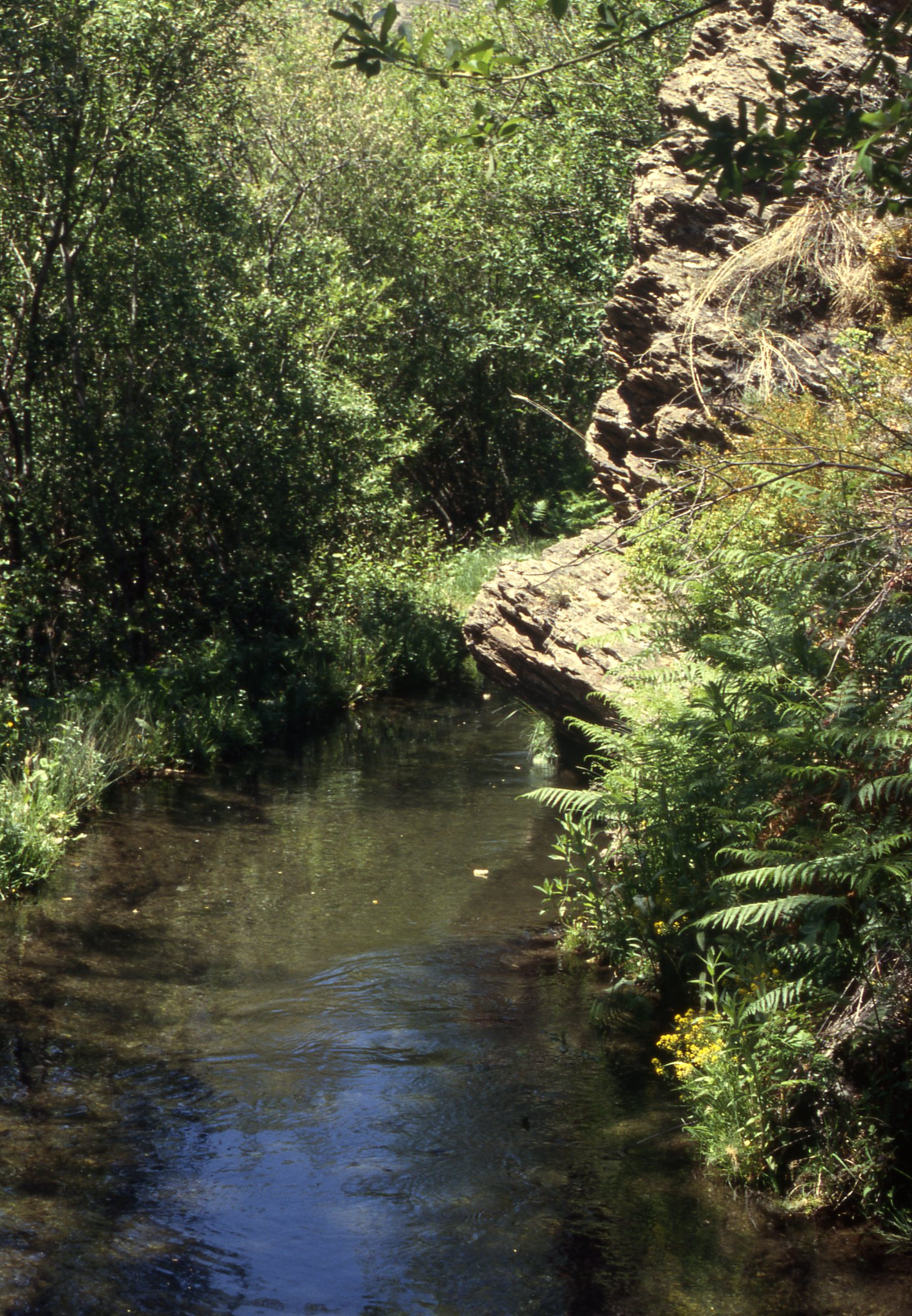 Old irrigation canals (acequias) from Moorish times